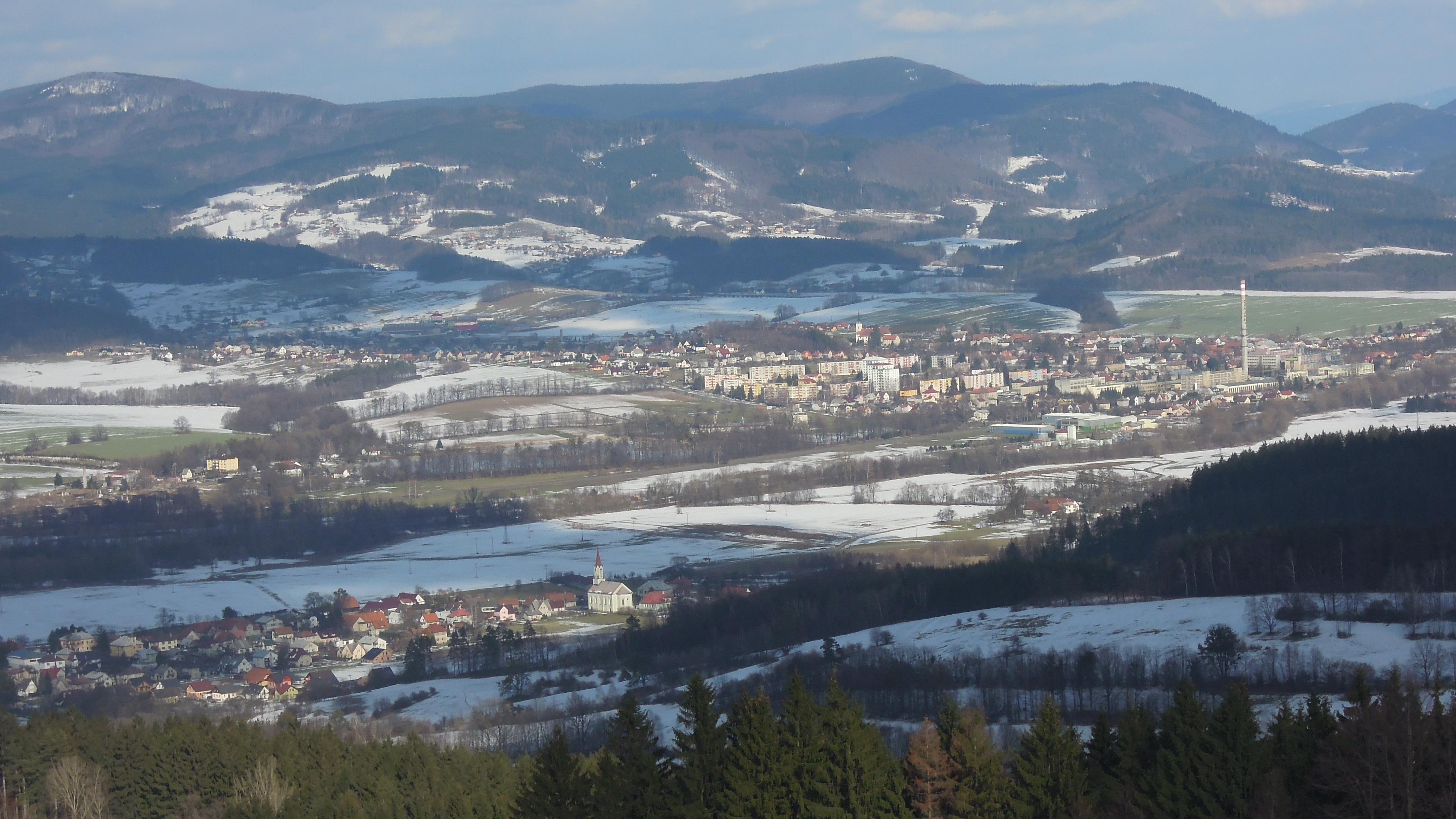 View of Zubří and Střítež nad Bečvou from Velká Lhota, Czech Republic